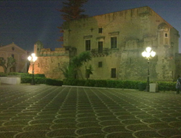 The castle of Spadafora, Eastern side.